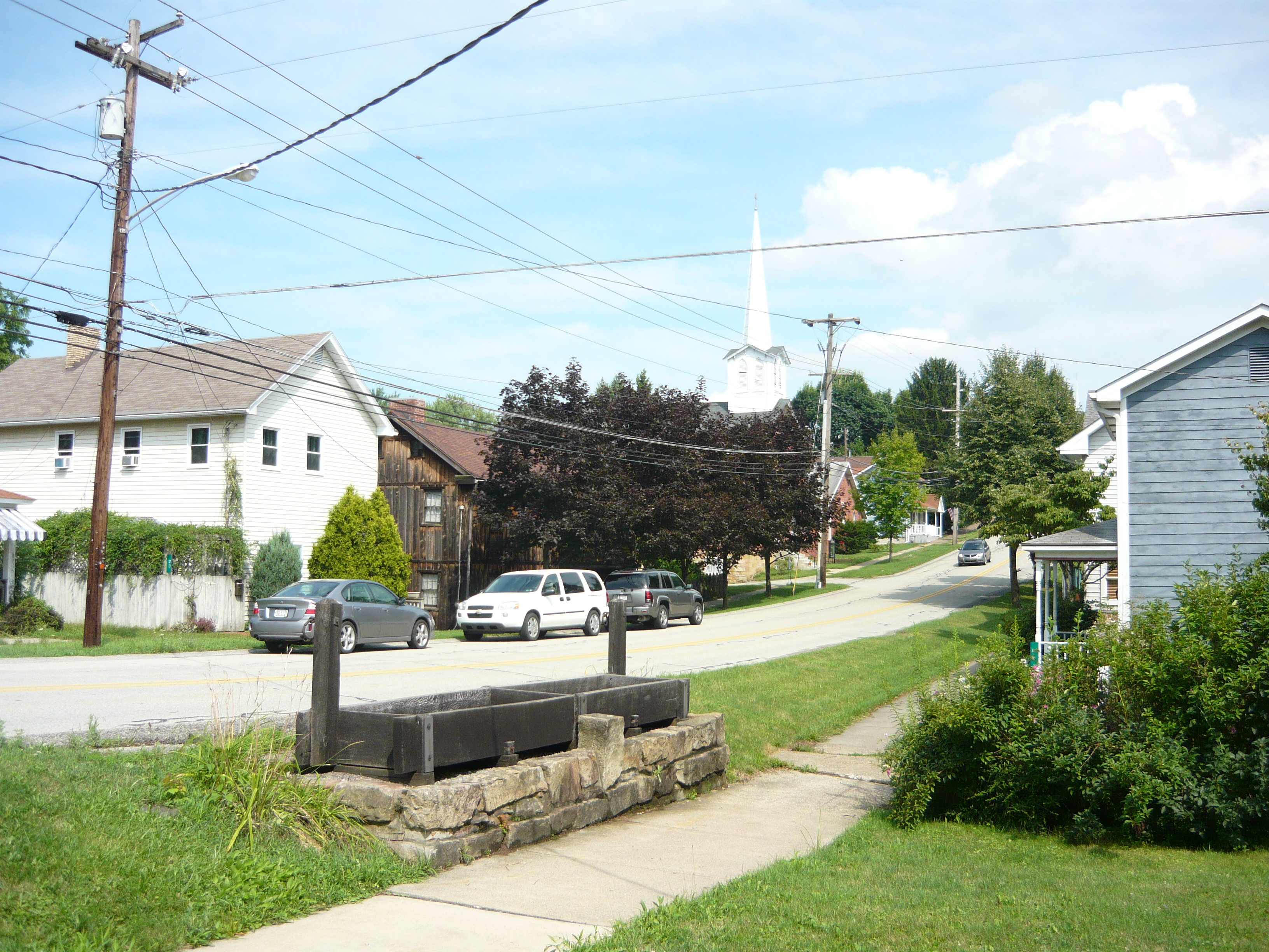 East Pittsburgh Street (looking eastward from Greensburg Street), Delmont, Westmoreland County, Pennsylvania.